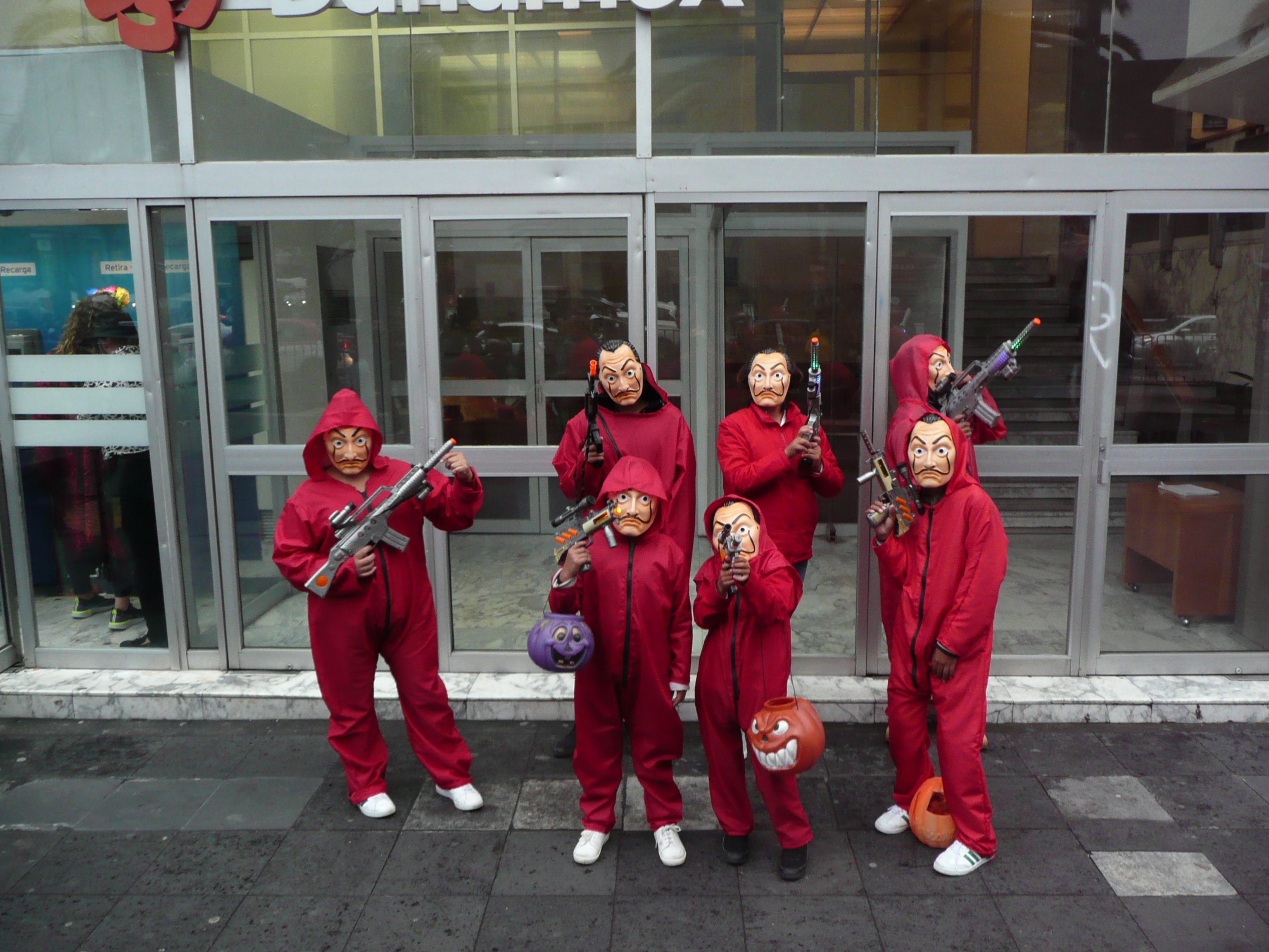 People with Halloween costumes of La Casa de Papel TV series outside Banamex bank, Mexico City.